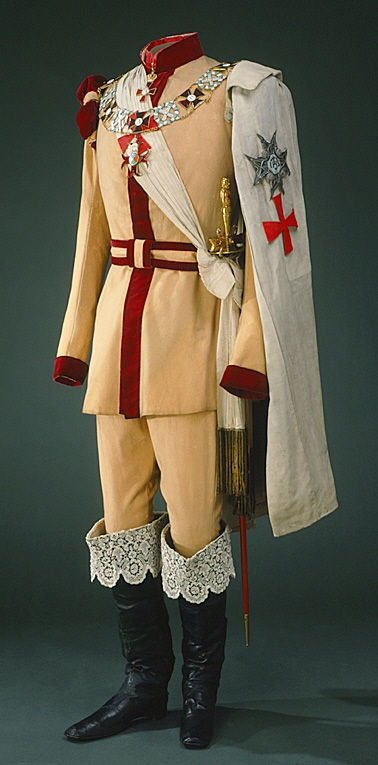 Ceremonial Robes of the Order of Charles XIII, belonged to king Oscar I of Sweden. Belongs to the collection of the Royal Armoury of Sweden.